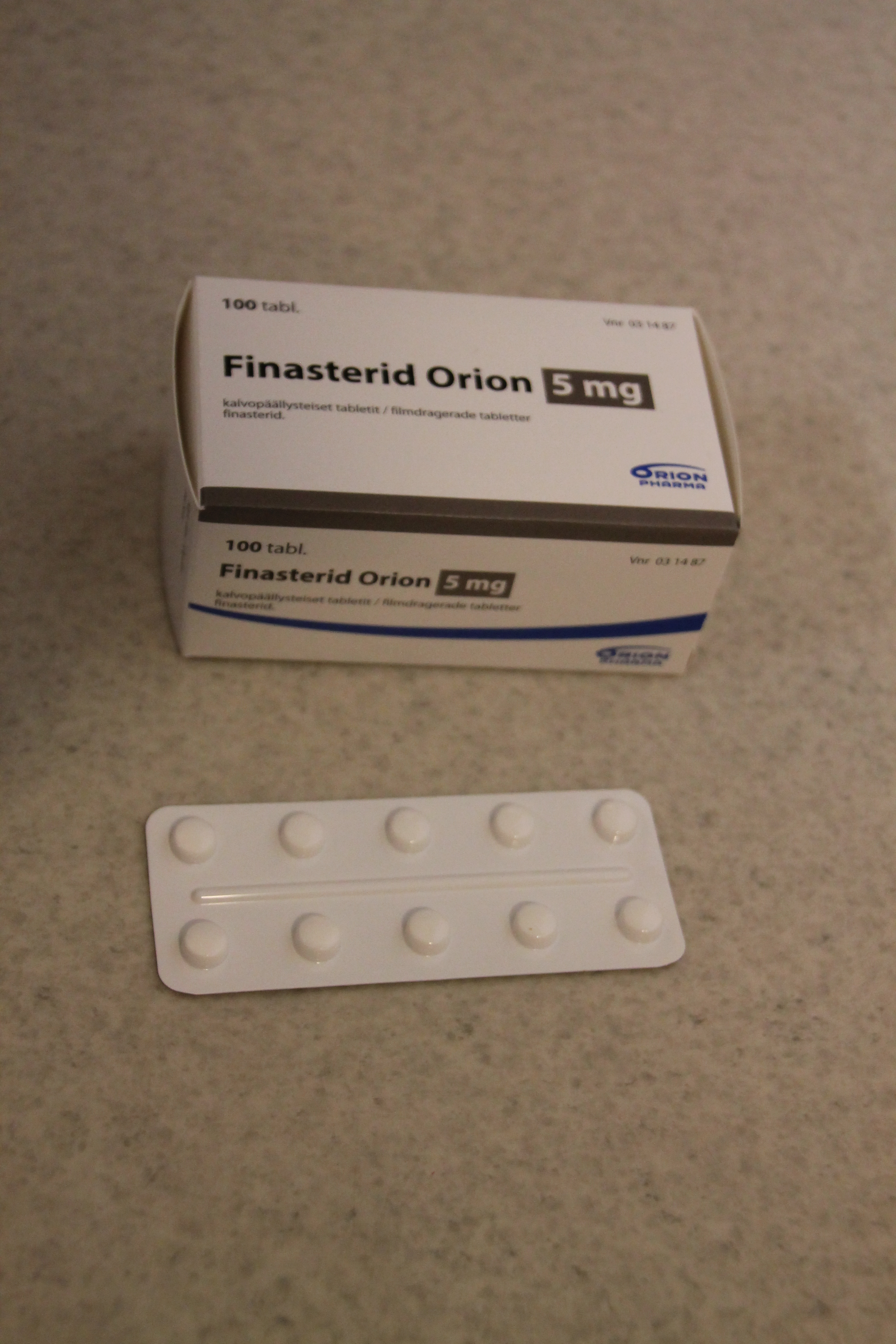 Finasteride 5mg package.